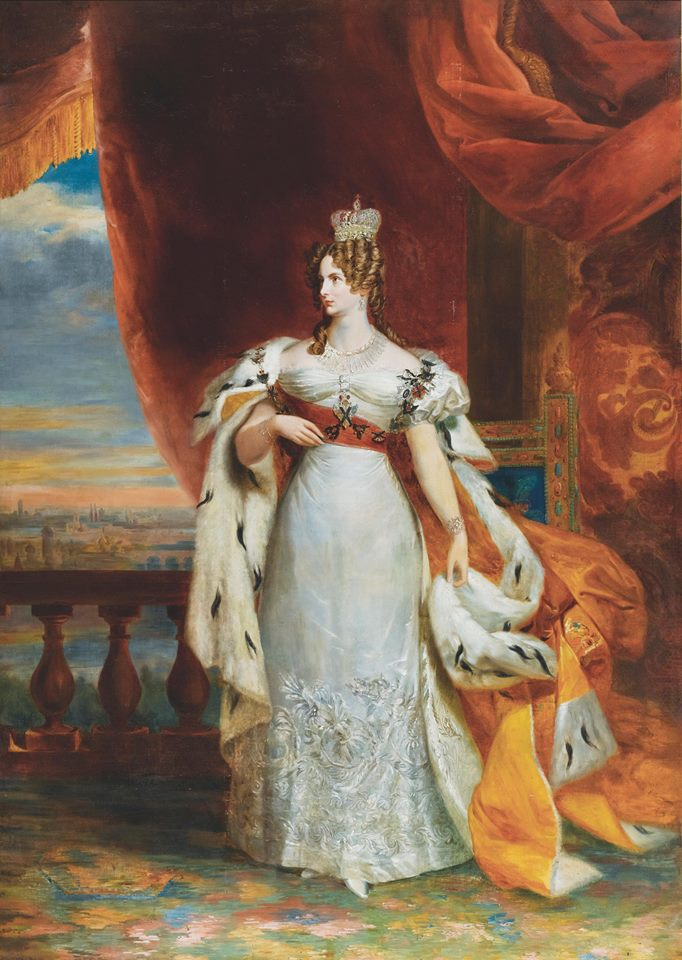 Tsarina Alexandra Feodorovna (Charlotte of Prussia), 1826